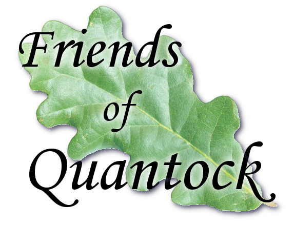 Logo and Corporate letter-head for Friends of Quantock using a photo image of a leaf of sessile oak common on the Quantock Hills in Somerset, UK.